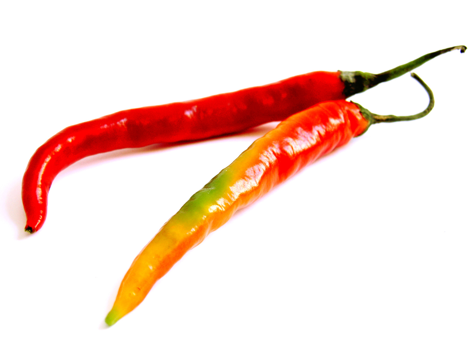 Chilis